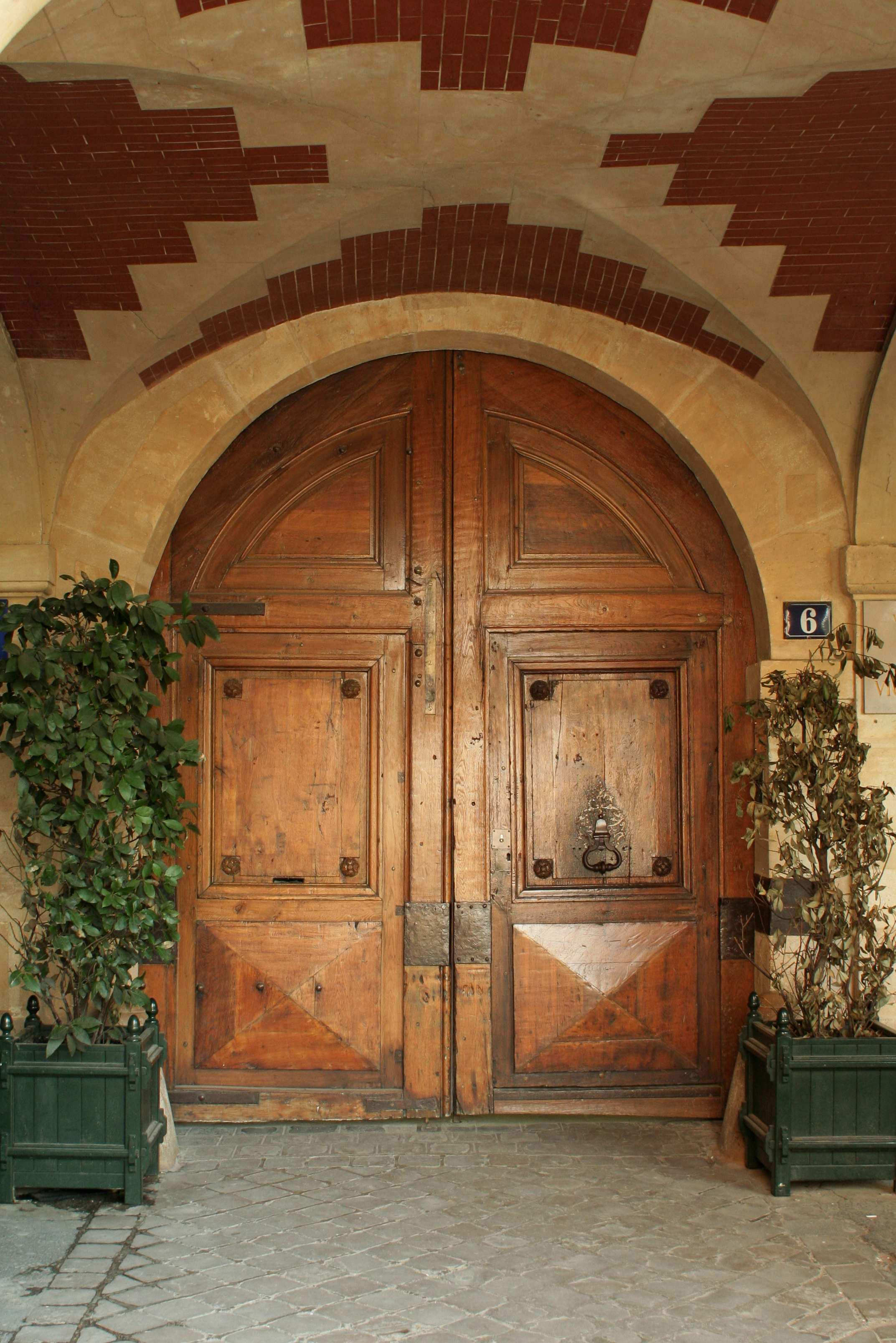 Door of 6 Place des Vosges, Paris. Victor Hugo's house entrance.